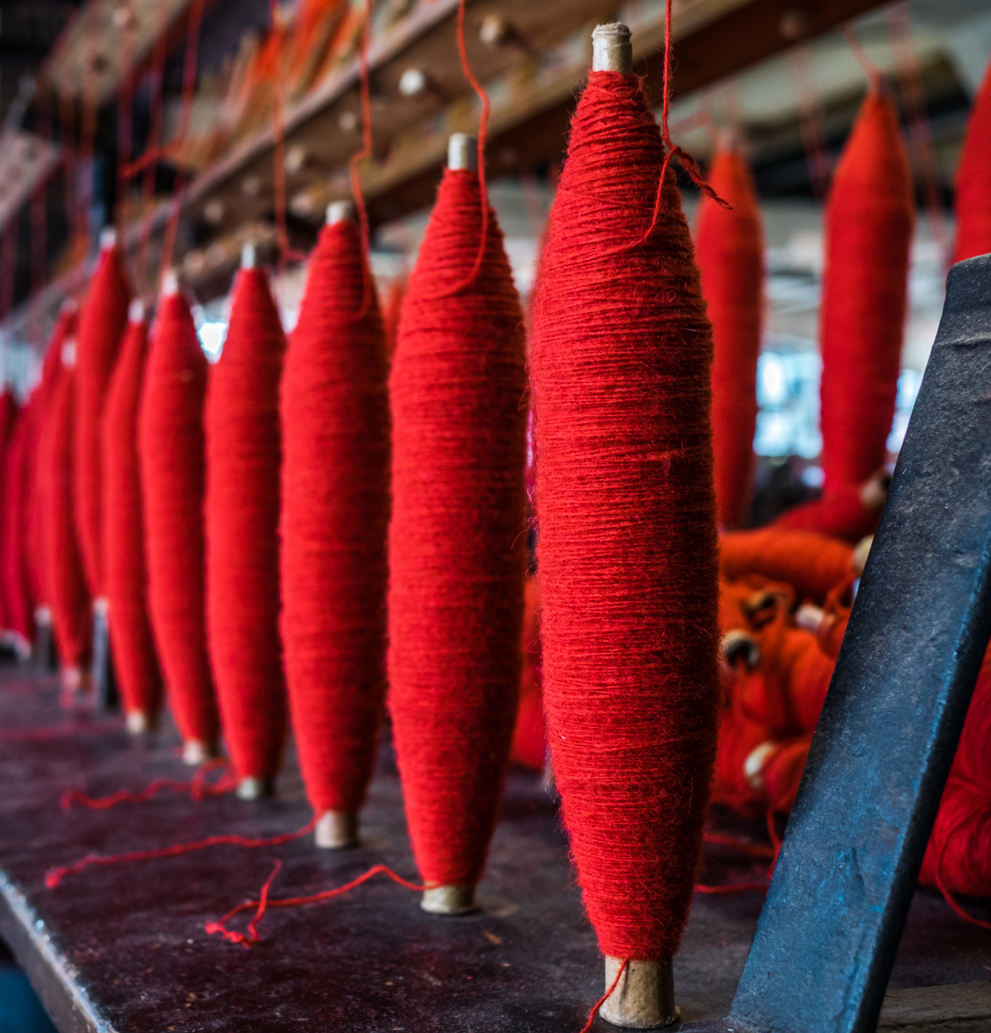 Wool thread spools in the Textile Museum in Bramsche (colour "Bramsche Red"/Venetian red). Osnabrück Land, Lower Saxony, Germany